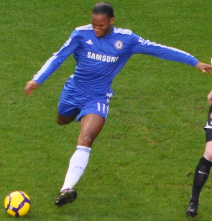 Didier Drogba in action for Chelsea against Fulham on 28th December 2009